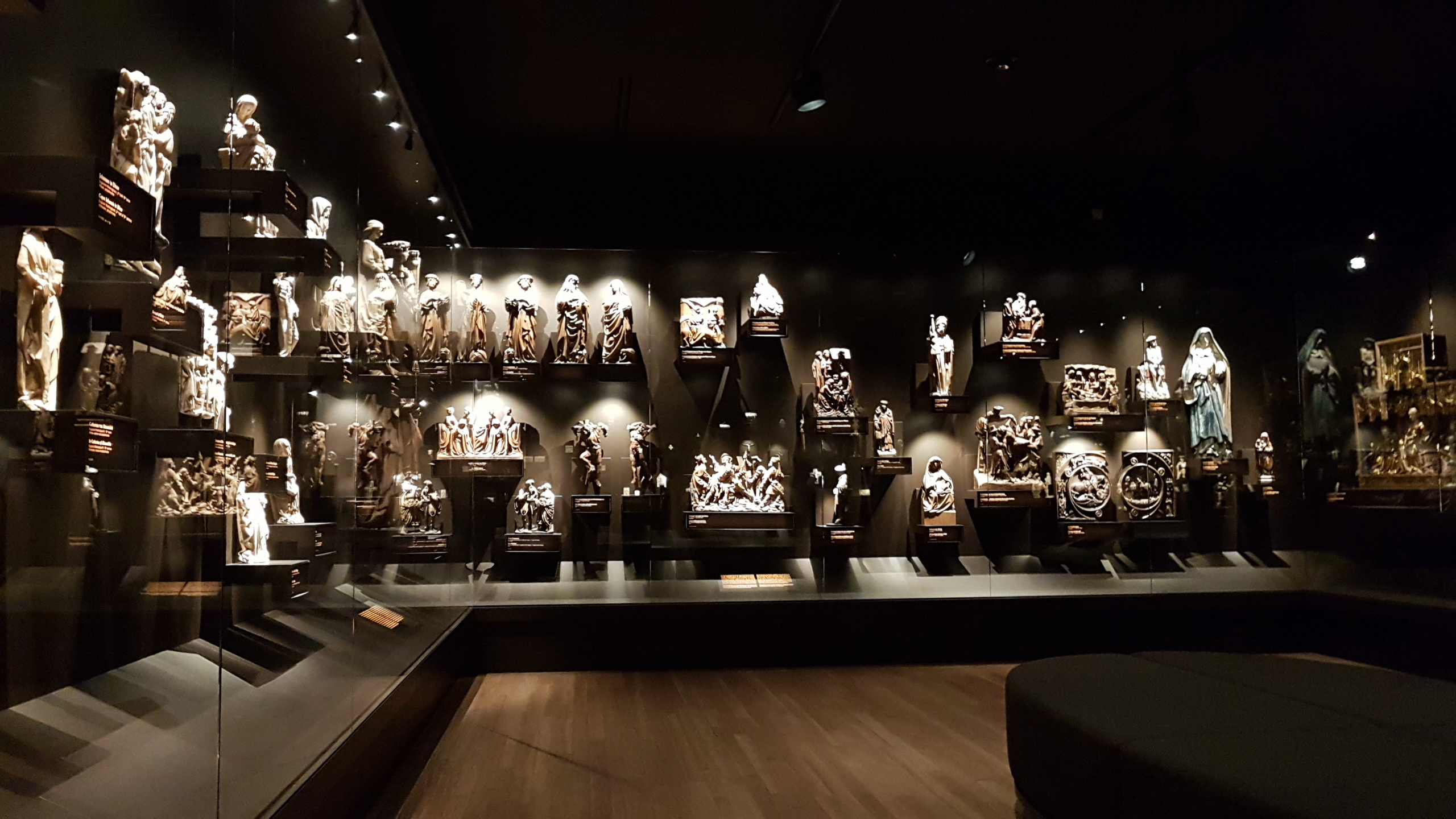 View of displays of Medieval sculpture from the Neutelings collections in the Bonnefantenmuseum, Maastricht, Netherlands.